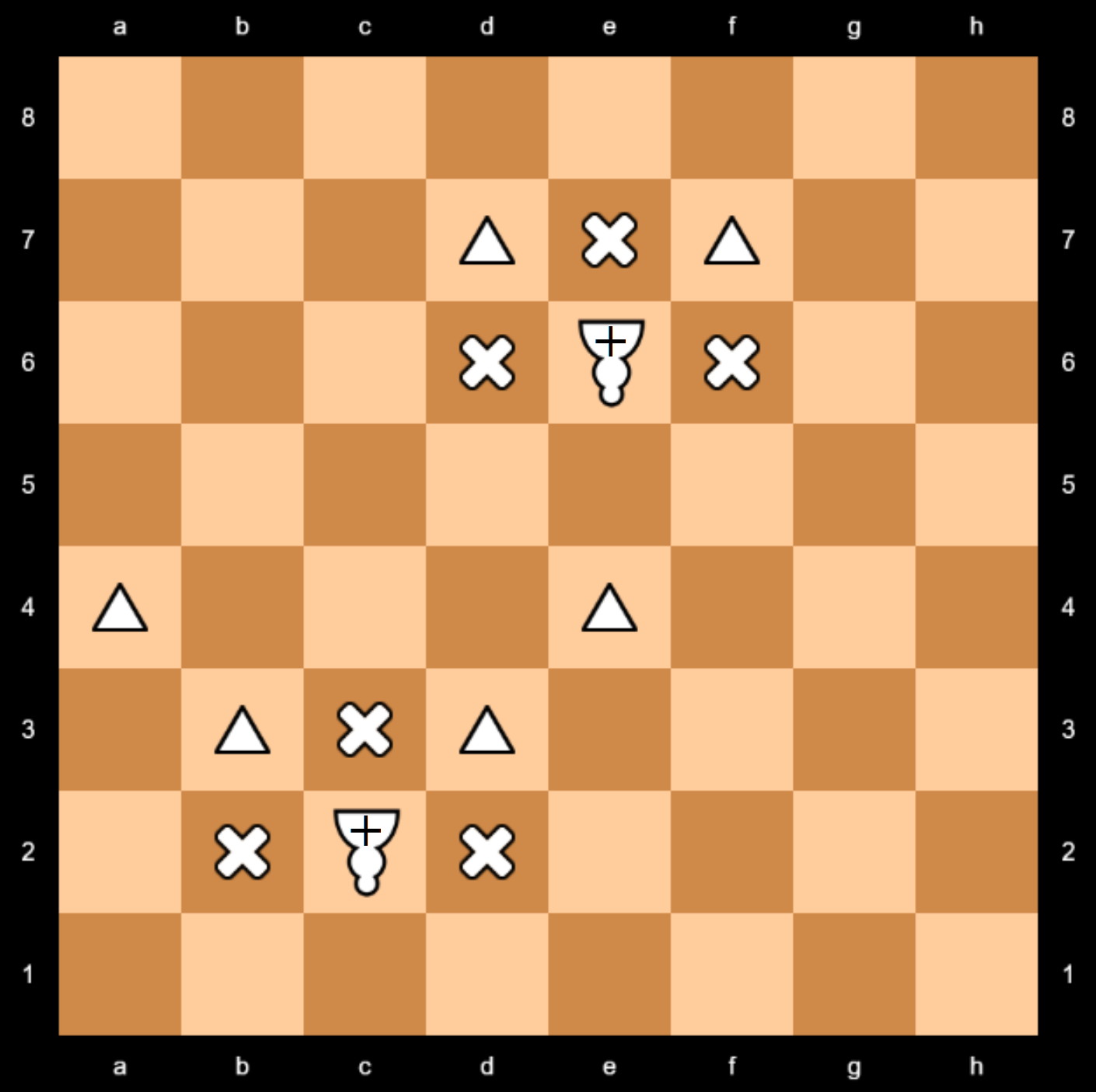 Moves like Berolina Pawns, with an extended capturing move: can capture one square sideways.